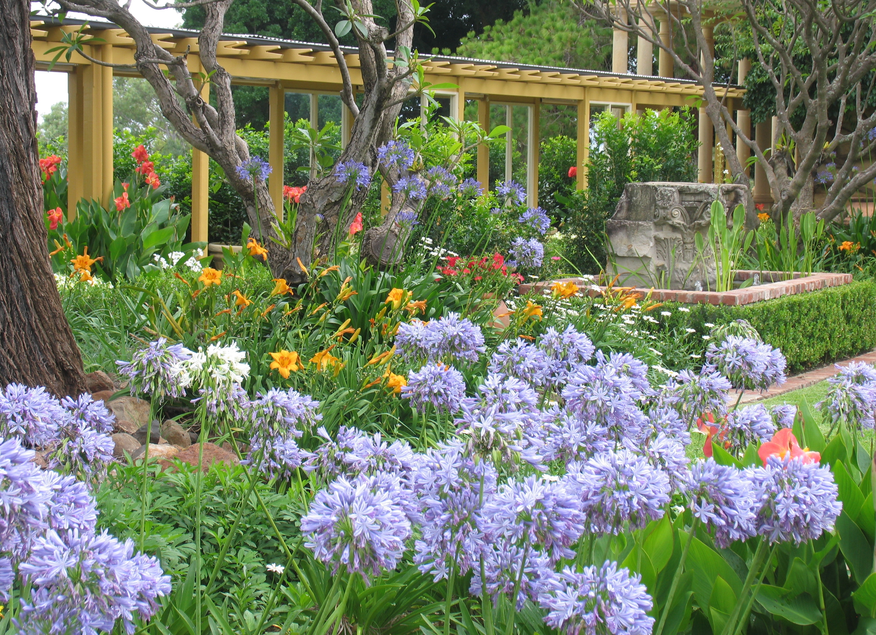 Jimbour is the main homestead on one of the earliest stations established on the Darling Downs, is important in demonstrating the pattern of early European exploration and pastoral settlement in Queensland, Australia.